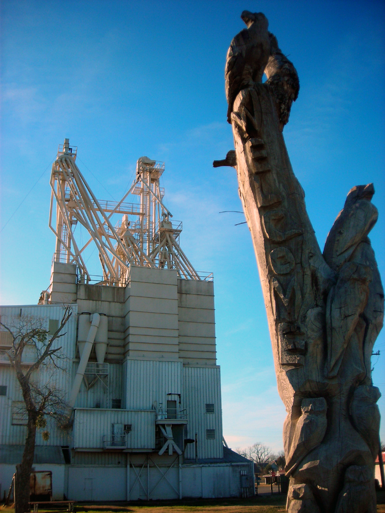 An ornate wood carving in a tree trunk in Muenster, Texas with the Muenster Milling facility in the background.